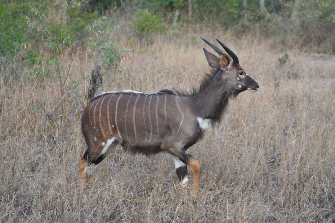 Young nyala bull (Tragelaphus angasii) in the Kruger National Park